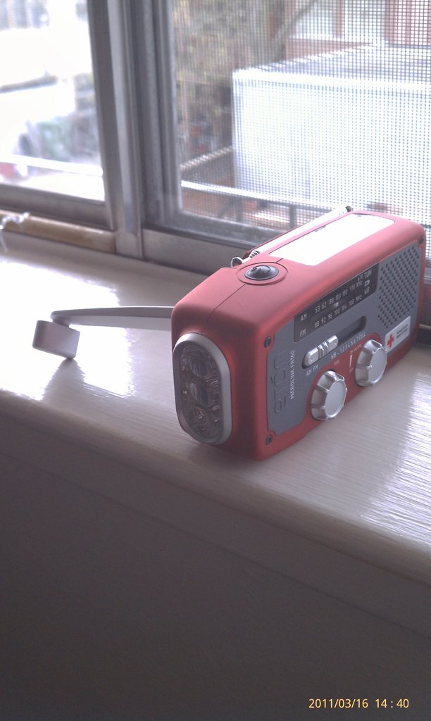 Power in my hands: just got handyman//solar radio/flashlight for my emergency kit!